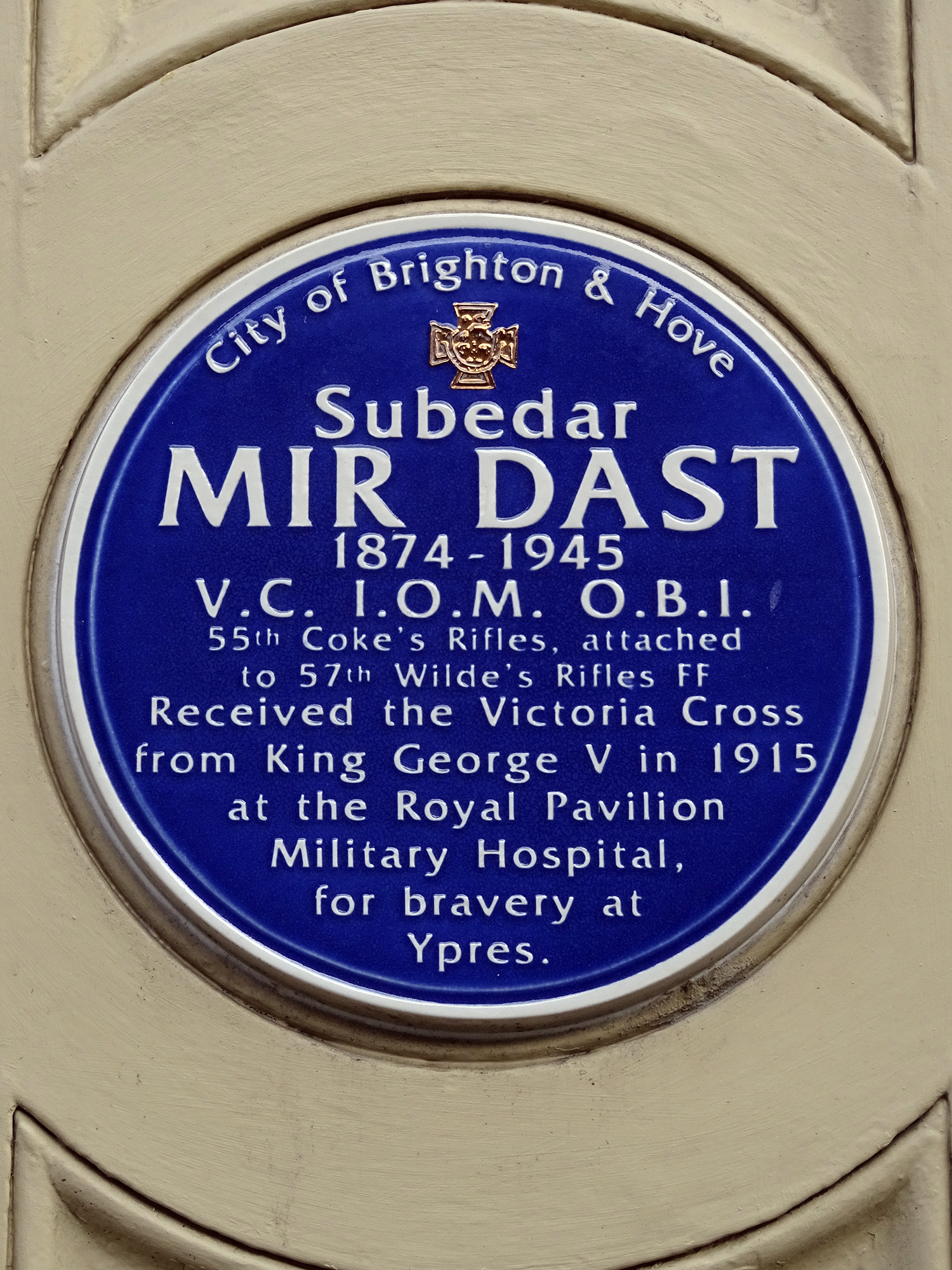 Blue plaque erected by Brighton Police and City of Brighton & Hove at Pavilion Buildings, Brighton, East Sussex BN1 1EE on 29th May 2016